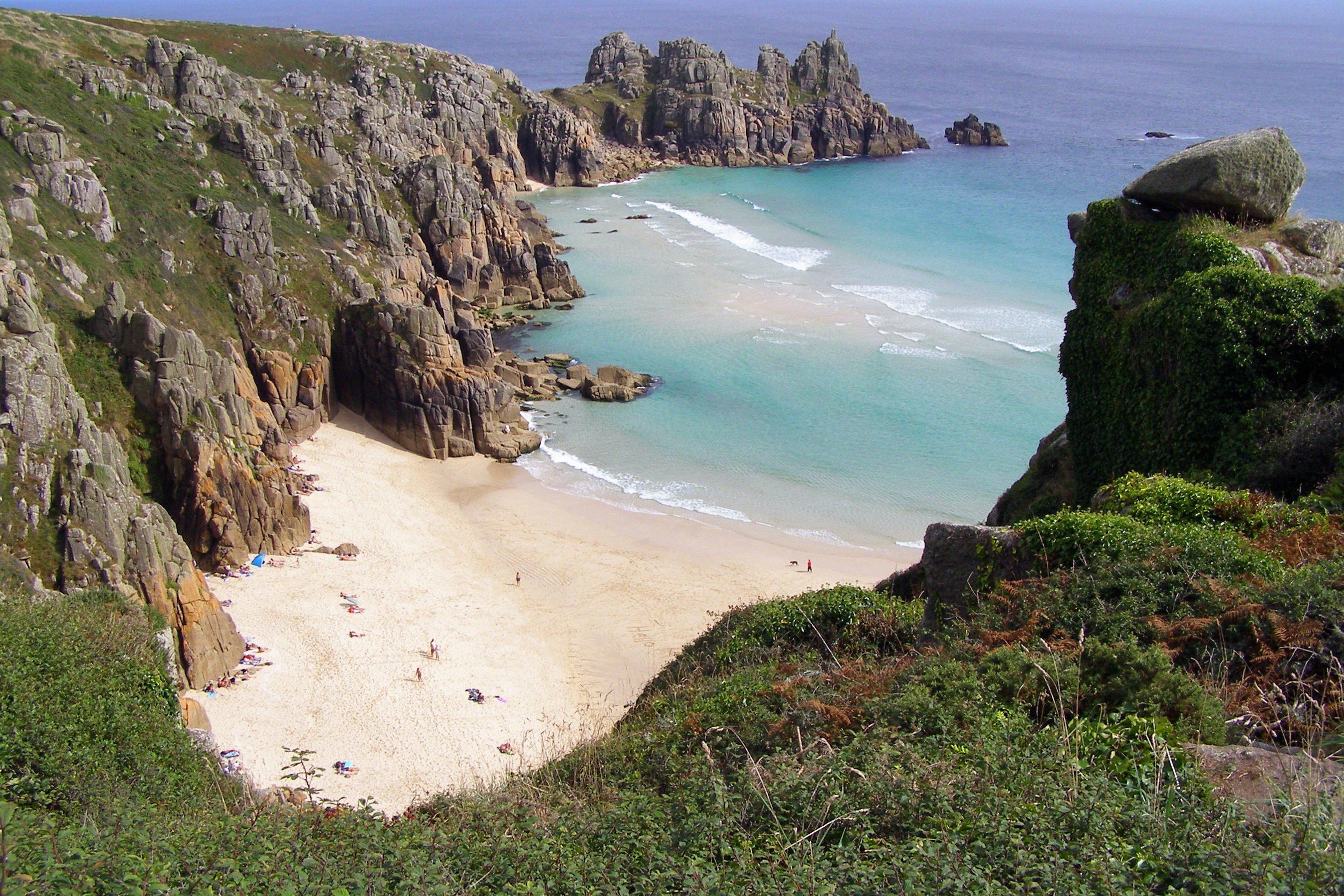 Pednvounder beach from the coast path on Treen Cliff. The Logan Rock headland (Treryn Dinas) in the distance. Near Porthcurno, Cornwall, U.K.